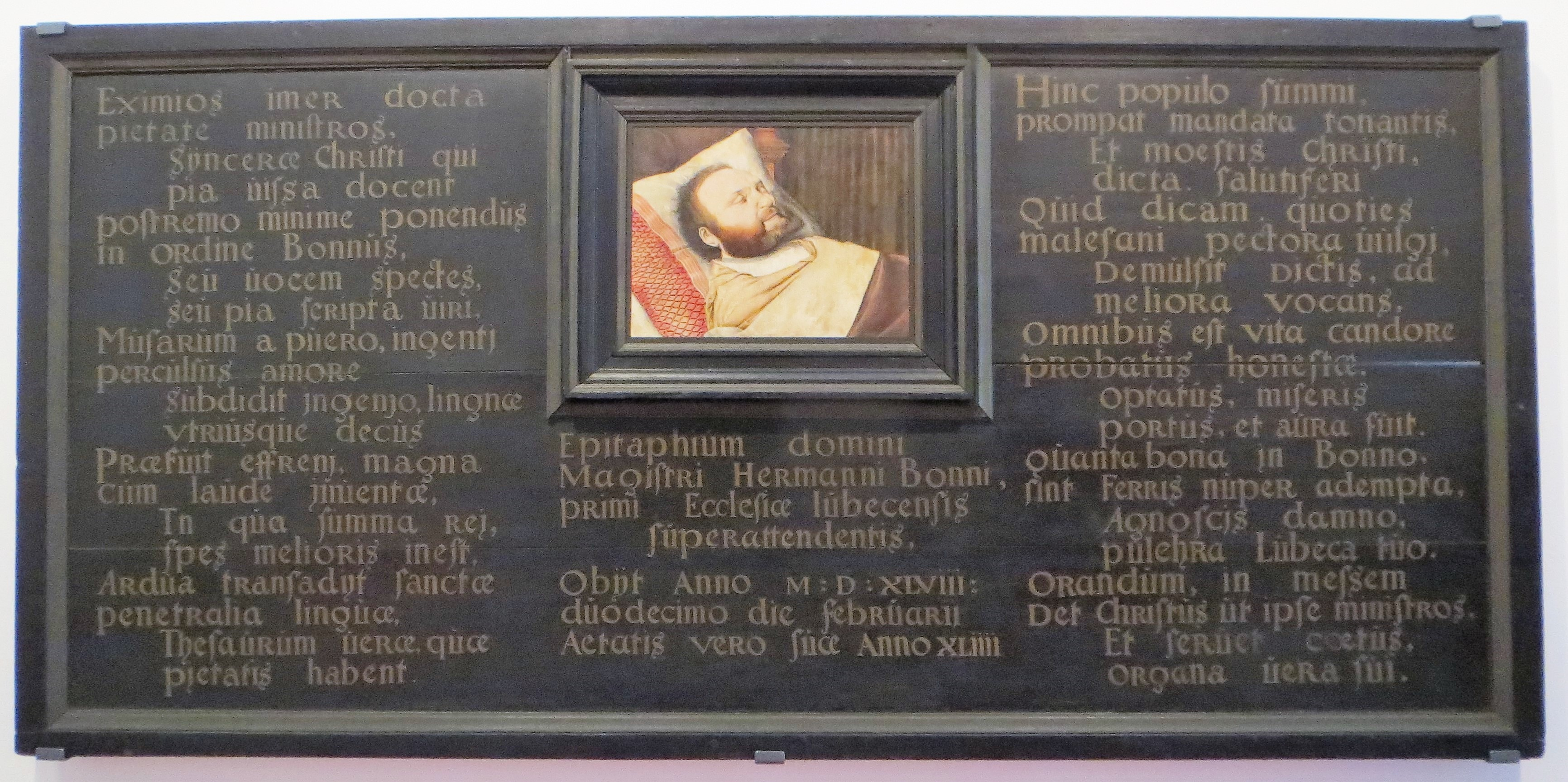 Epitaph of Hermann Bonnus, c. 1548; the deathbed portrait inserted in 1917, 127x260 cm, today in the collection of the St.-Annen-Museum